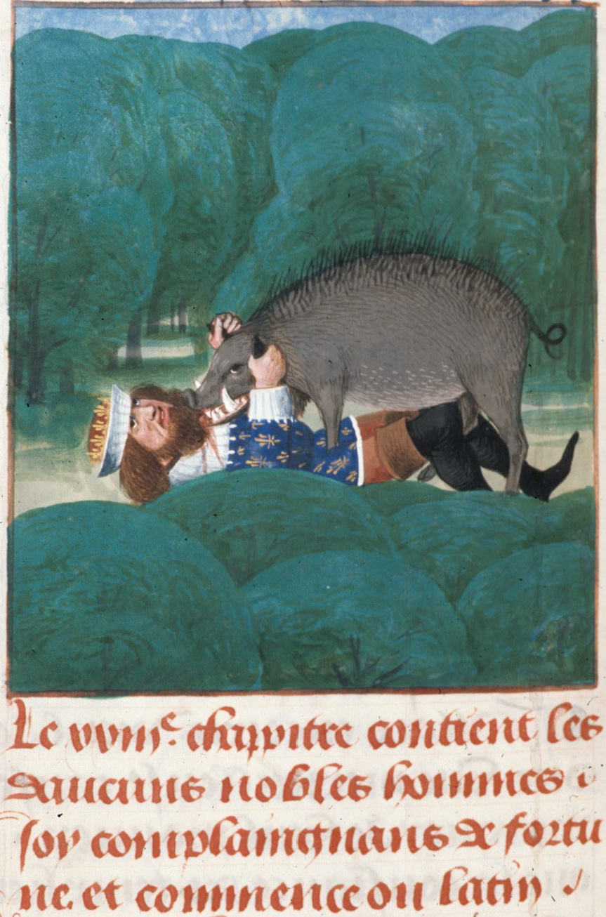 Death of Philip IV the Fair of France. (British Library, Royal 14 E V f. 497v)